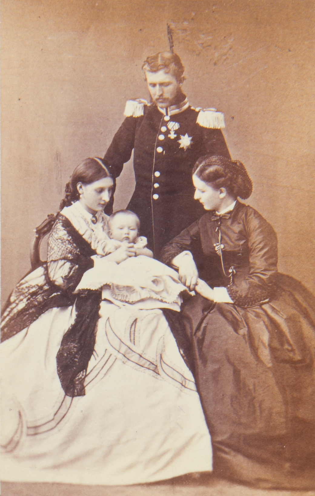 Prince Leopold of Hohenzollern (1835-1905), Princess Antónia (1845-1913), and their son Prince Ferdinand (1865-1927). Also photographed is Prince Leopold's sister, Princess Marie of Hohenzollern-Sigmaringen (1845-1912).